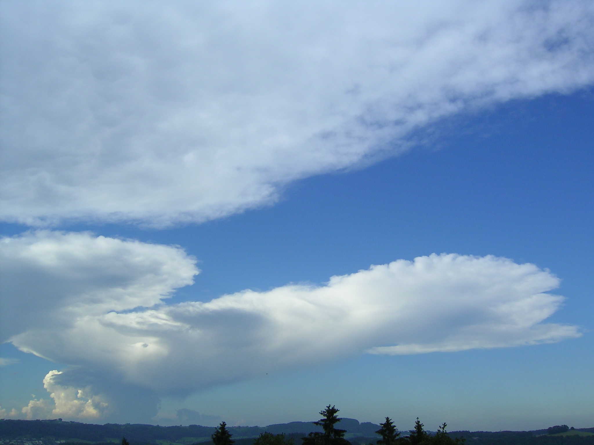 Cumulonimbus with very long anvil